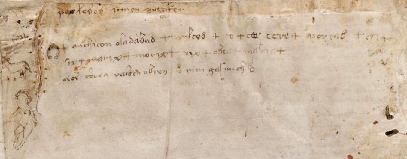 Detail of latest pag. 116 v. Voynich manuscript.